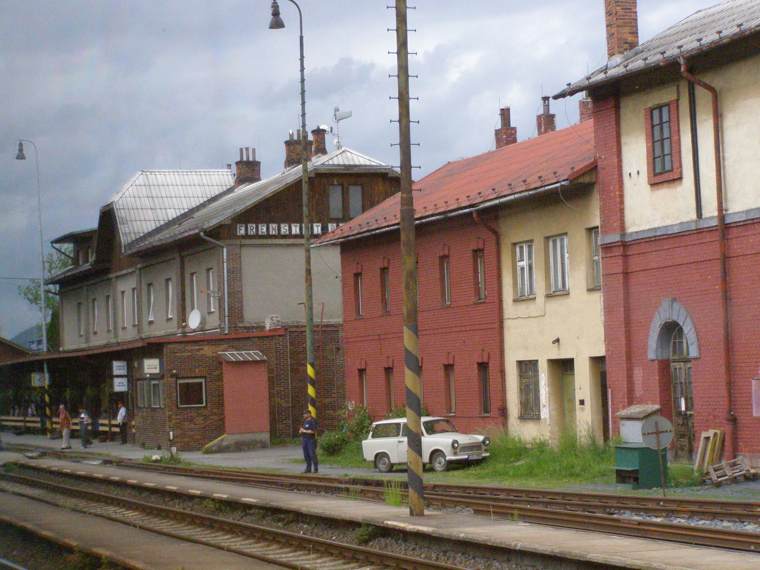 Frenštát pod Radhoštěm, railway station